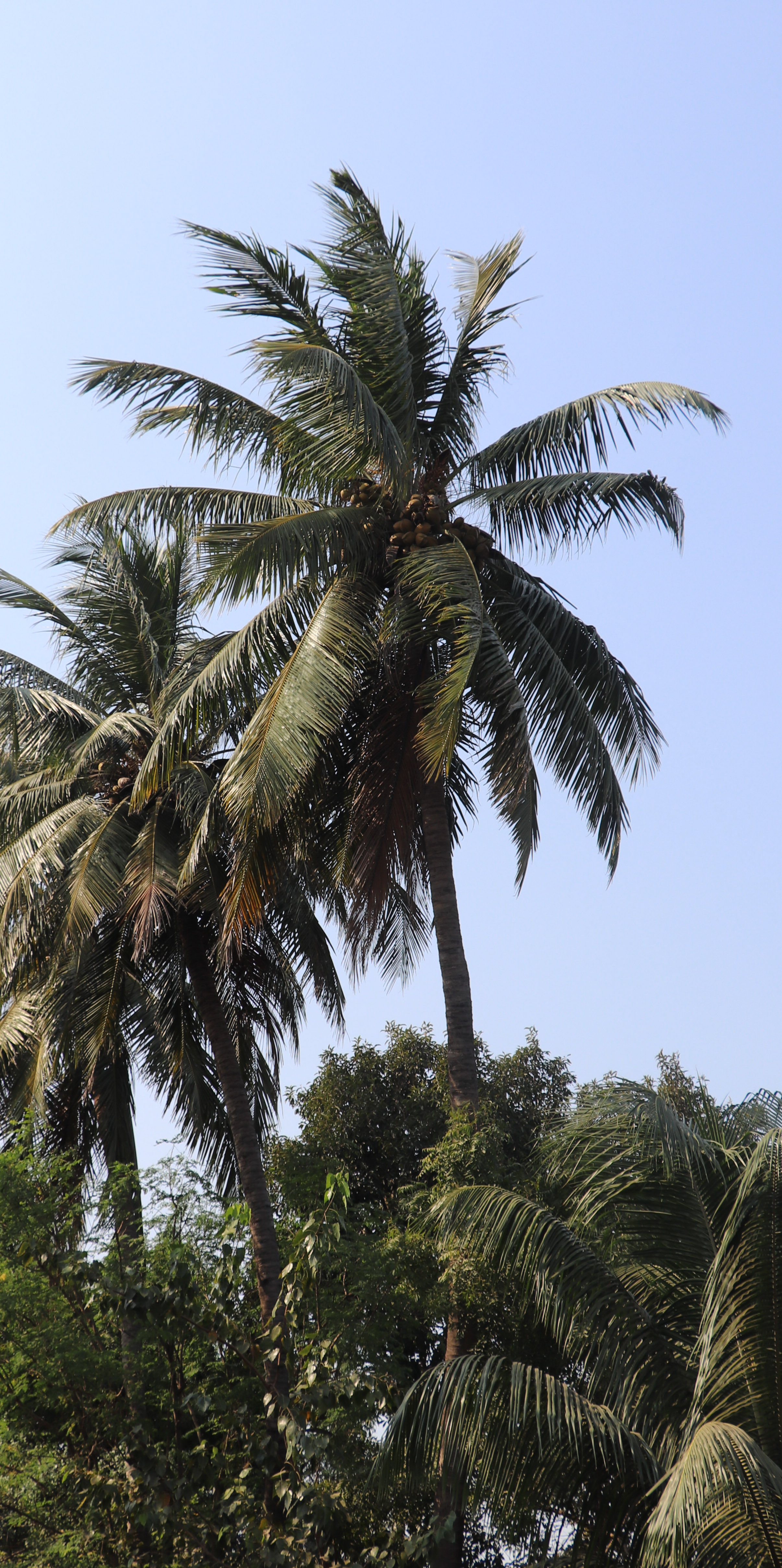 Coconut palm (Cocos nucifera) of the India 'West Coast Tall' variety.